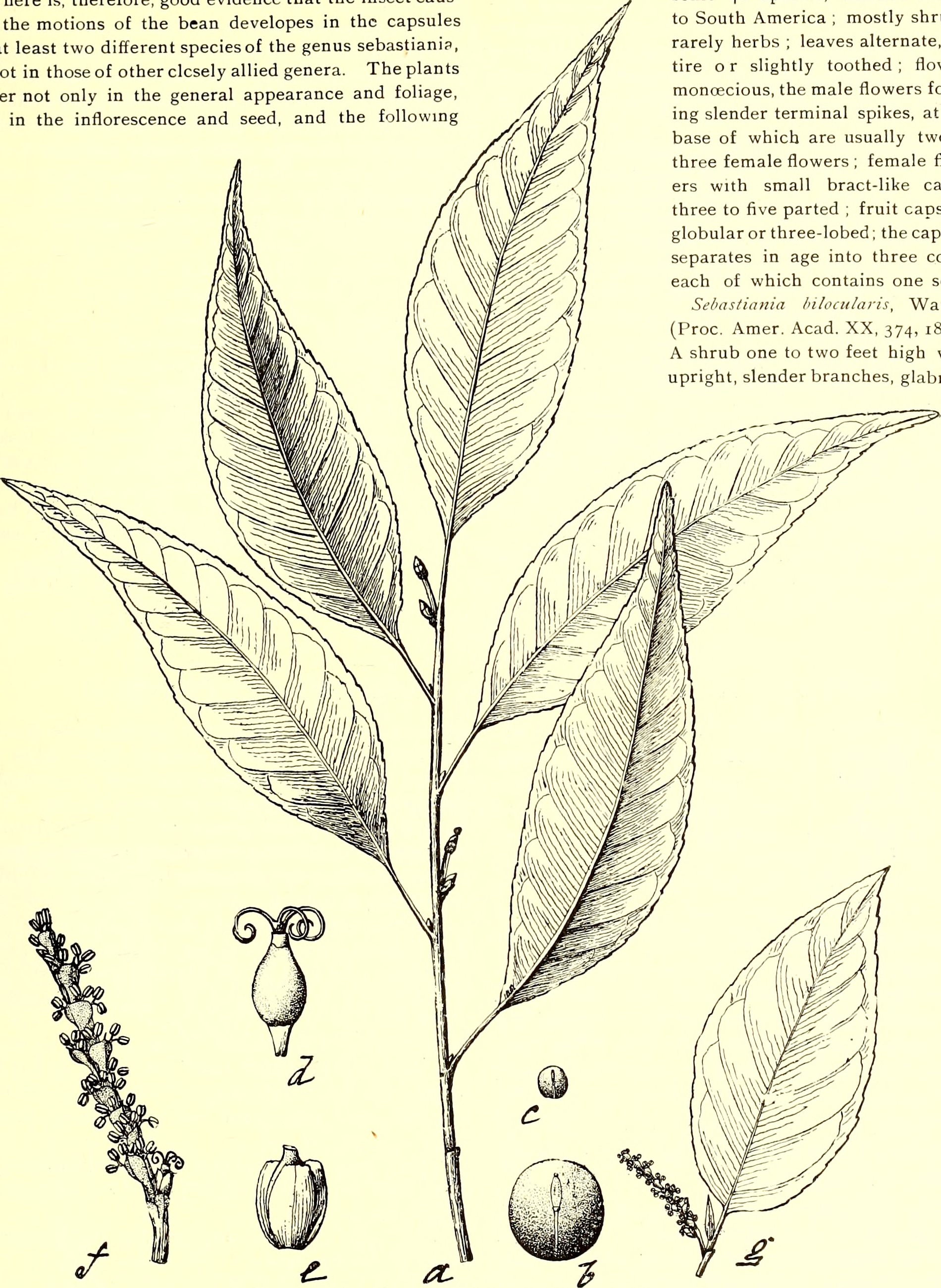 Title: The American garden Year: 1873 (1870s) Authors: Subjects: Horticulture; Gardening Publisher: Brooklyn, N. Y. : (s. n. ) Text Appearing Before Image: MEXICAN JUMPING BEANS. There is, therefore, good evidence that the insect caus ing the motions of the bean developes in the cap: of at least two different species of the genus sebast if not in those of other clcsely allied genera. The differ not only in the general appearance and fol but in the inflorescence and seed, and the foil 553 some 40 species, confined mostly to South America ; mostly shrubs, rarely herbs ; leaves alternate, en- re o r slightly toothed ; flowers onoecious, the male flowers form- g slender terminal spikes, at the ase of which are usually two or three female flowers ; female flow- ers with small bract-like calyx, three to five parted ; fruit capsule, lobular or three-lobed; the capsule eparates in age into three cocci, ach of which contains one seed. Sehastiania bilocularis, Watson Proc. Amer. Acad. XX, 374, 1885). shrub one to two feet high with pright, slender branches, glabrous Text Appearing After Image: The Plant of the , Twig of Sehastiania Palmeri. b, Seed, enlarged, c. Seed, natural size bract of .S. Pringlei, enlarged, g. Leaf and staniinate bract, natural size. Mexican Jumping Bean." d, Ovary with style. e, Involucre. /, Staniinate synopsis, prepared by Mr. Rose, will serve to distinguish those here considered : Sebastiania. a large genus of euphorbiaceae. of and with light gray bark; leaves linear-oblong or nar- rowly lanceolate, one to two inches long, obtuse to acum- inate, abruptly cuneate at base,obscurely glandular